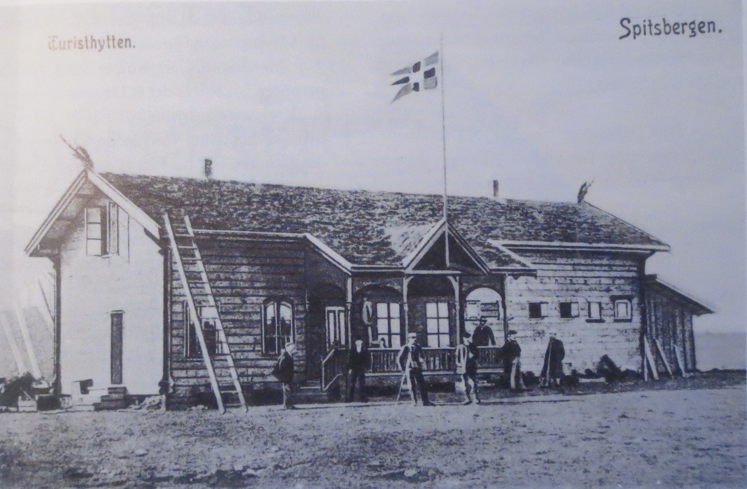 The Hotel ("Turisthytta") at Hotellneset, Svalbard, in 1908. The Norwegian state post flag is raised, in spite of the islands not becoming Norwegian Territory until 1920. The hotel was deconstructed in 1908 and moved to Longyearbyen.